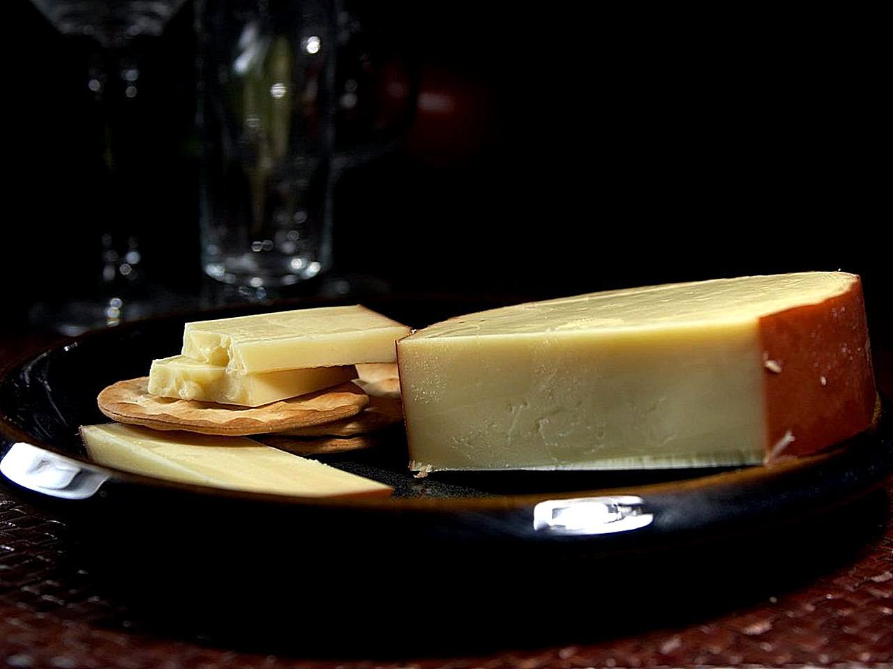 Image title: Smoked gouda cheese Image from Public domain images website